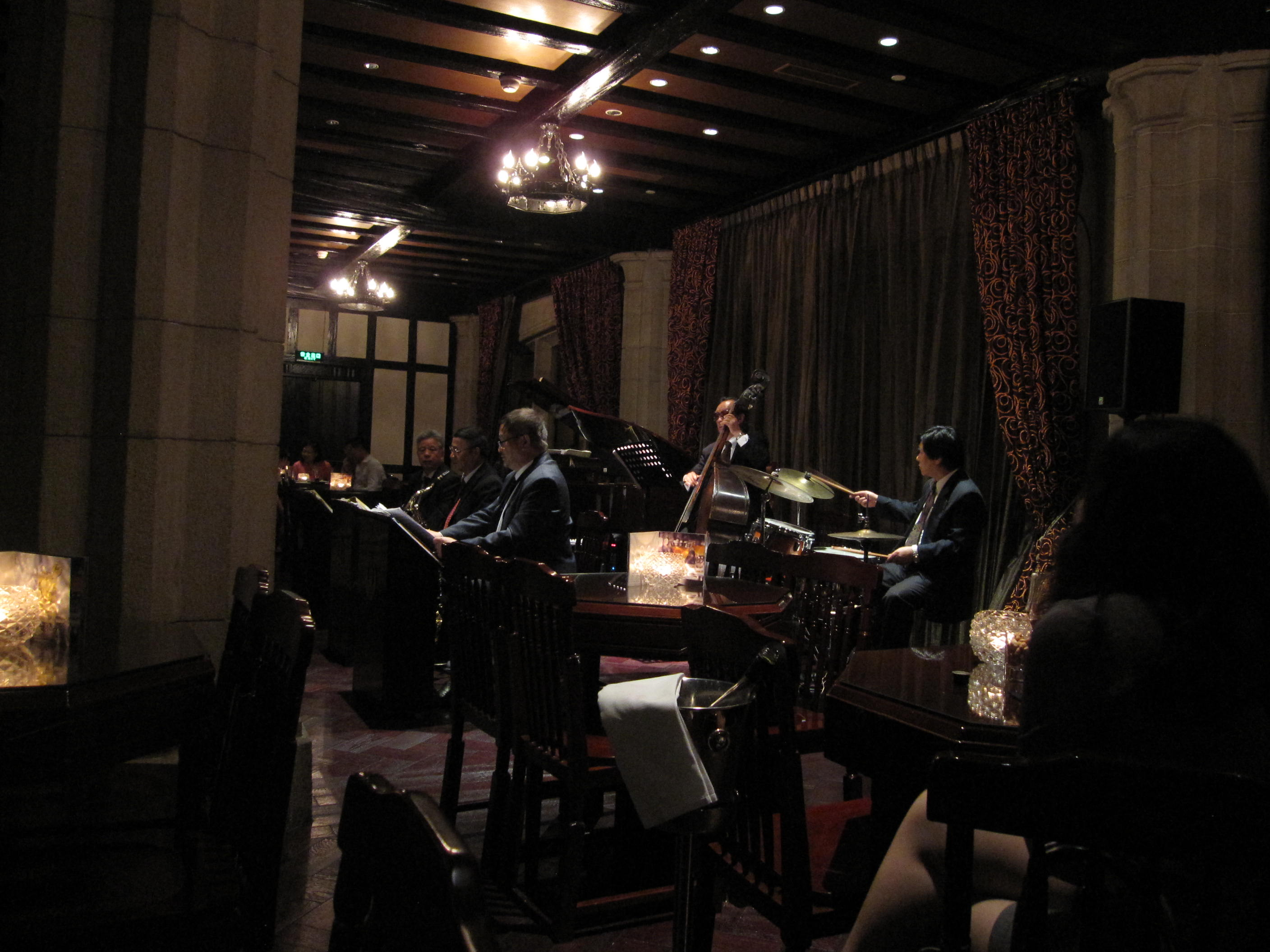 The Peace Hotel Jazz Band in Shanghai, China.